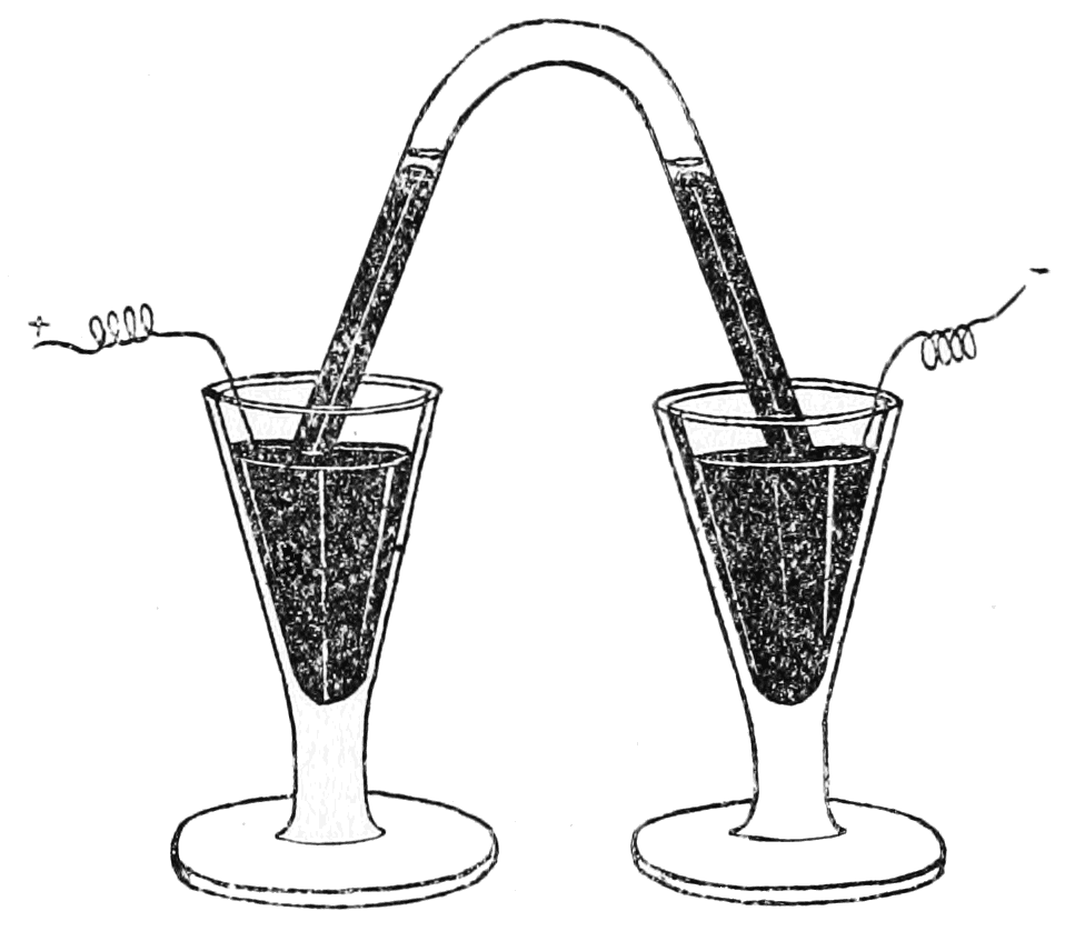 Cavendish experiments of isolating the gases 1